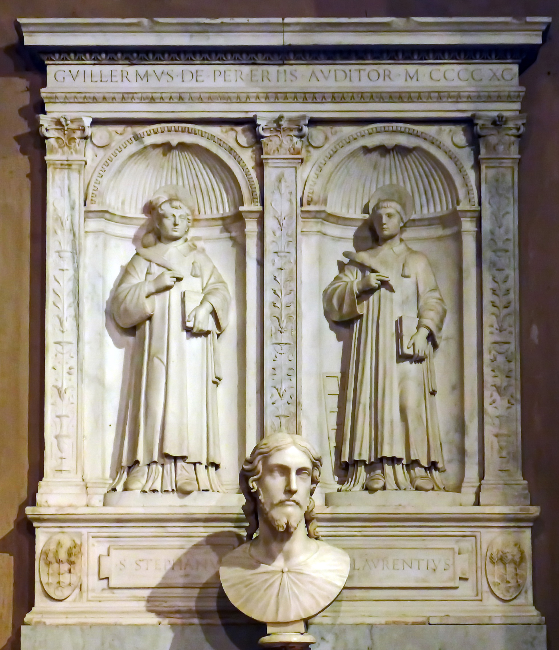 Part of altar for San Lorenzo fuori le Mura; Sant' Agnese, Rome; Stephanus und Laurentius